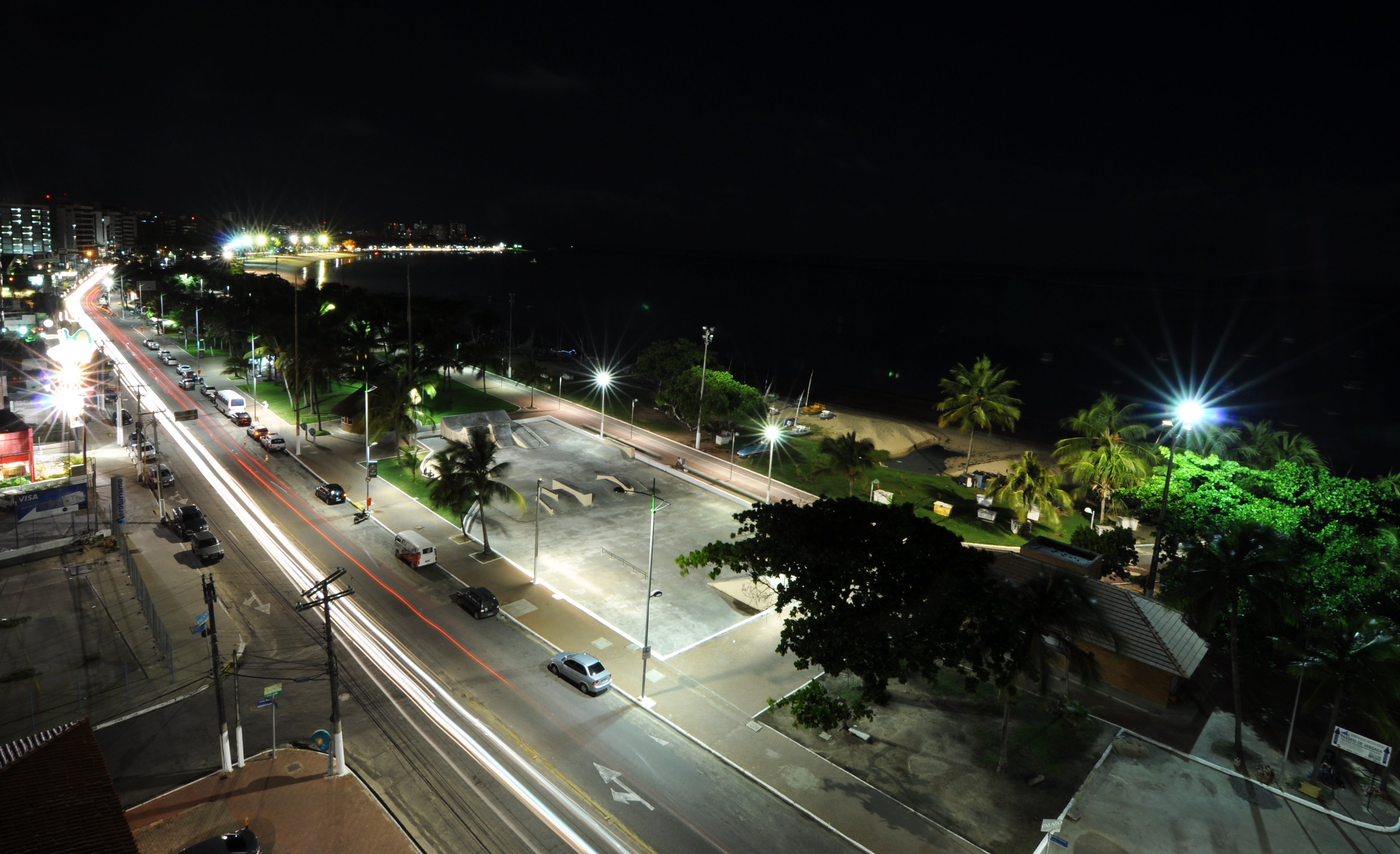 Pajuçara Beach, Maceió, Brazil.Arpetan: Plage de Pajuçara, Maceió, Brésil.